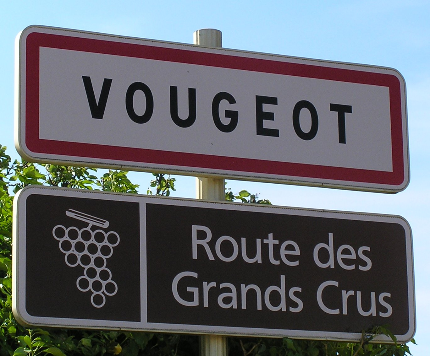 Photo by Gavin Sherry,May 2005.